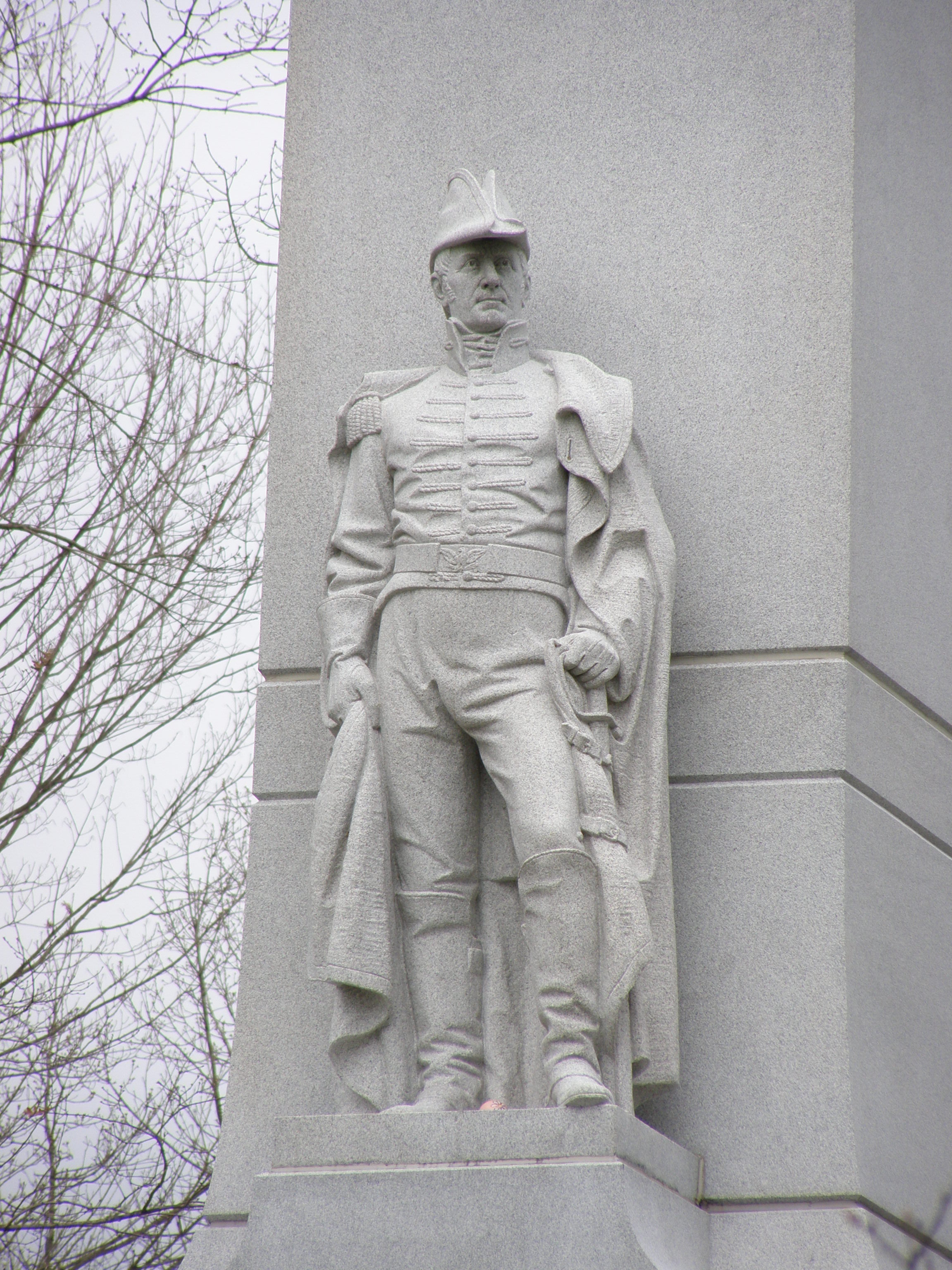 Statue of Wm Henry Harrison by sculptor John H Mahoney on the Battle of Tippecanoe Monument